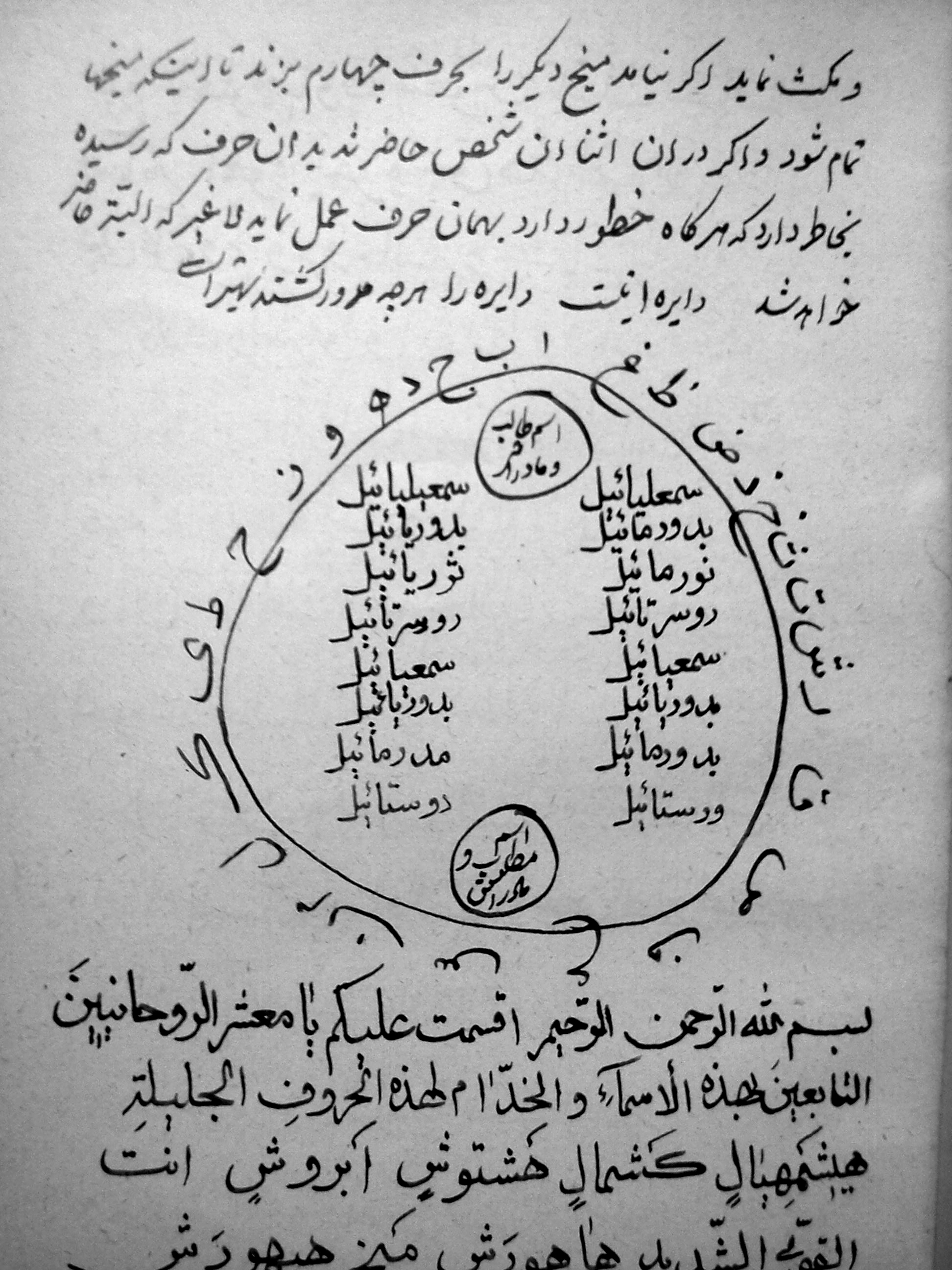 One page of Farsi Esotericism book- Wrote in Tabriz.